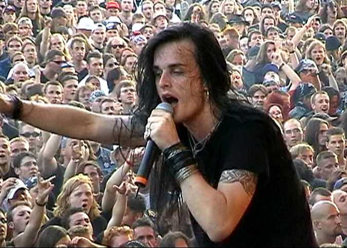 Photo taken by me in 2002 Pic taken by me uploaded to the net in 2002